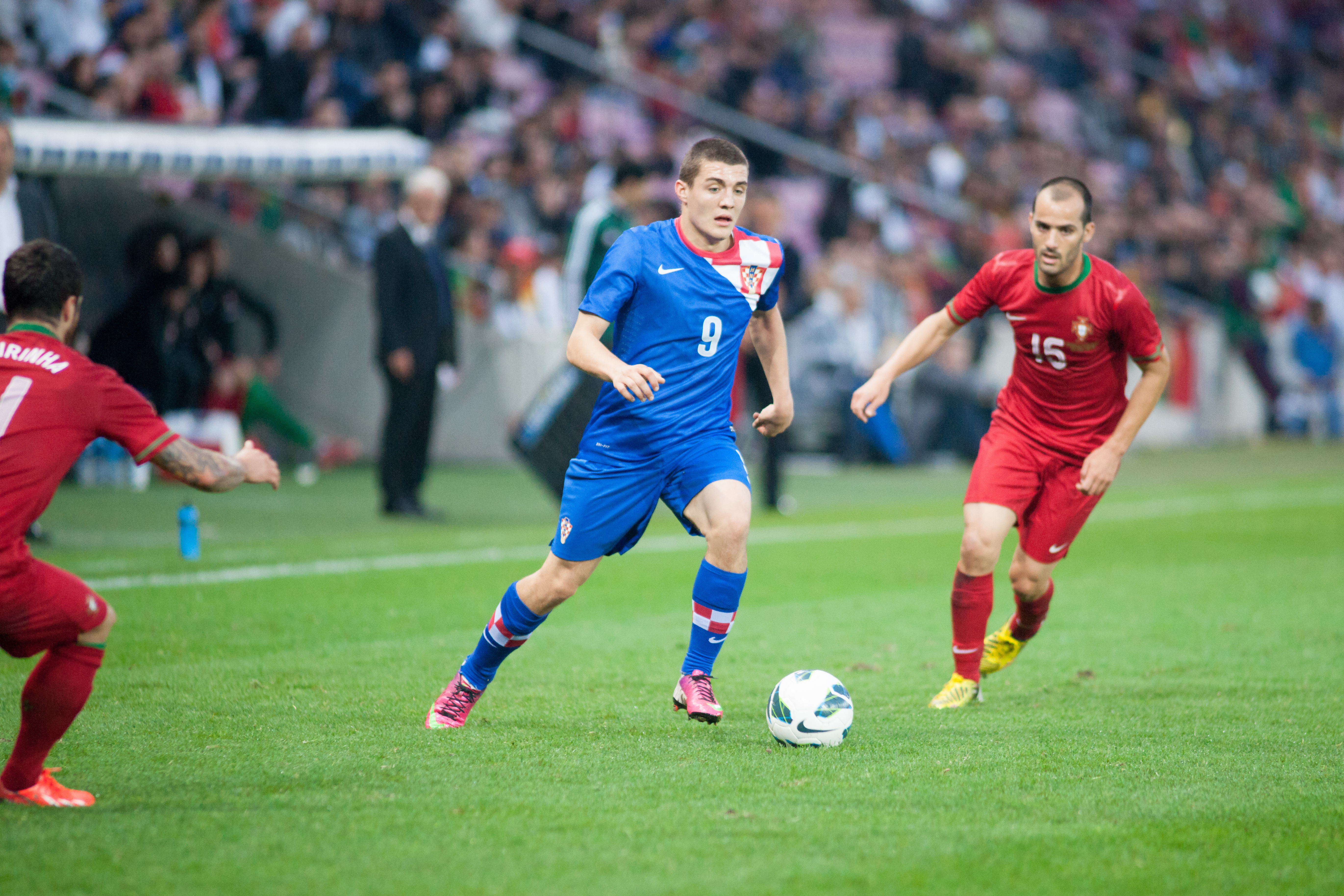 Croatia vs. Portugal, 10th June 2013